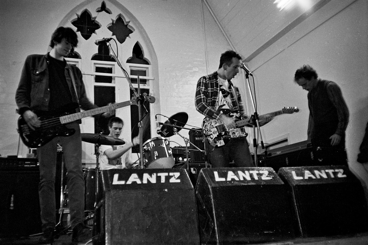 (...) Thrilled Skinny (...) 'live' in Leamington Spa: goo.gl/d53gqt